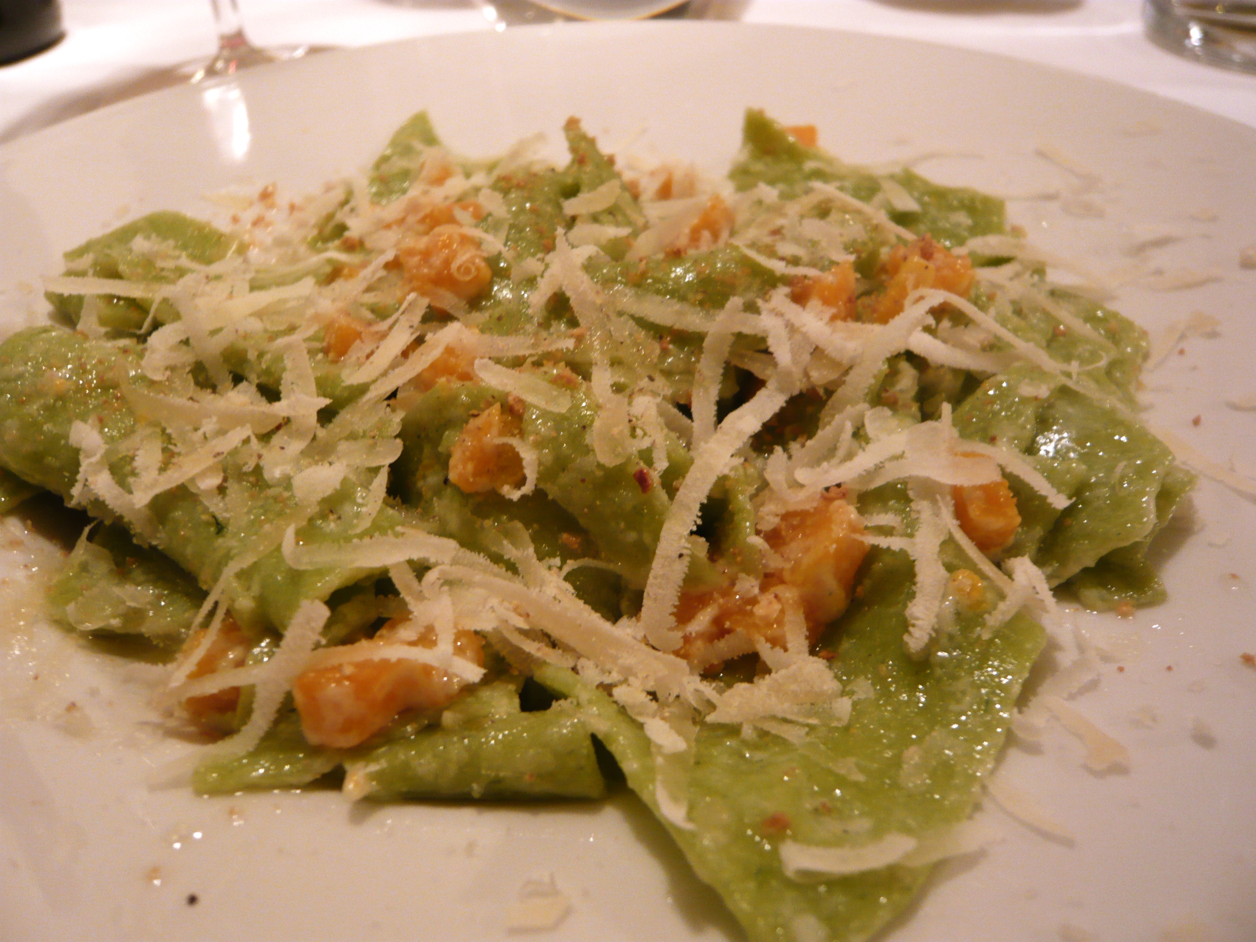 Lasagnette with pumpkin and parmesan